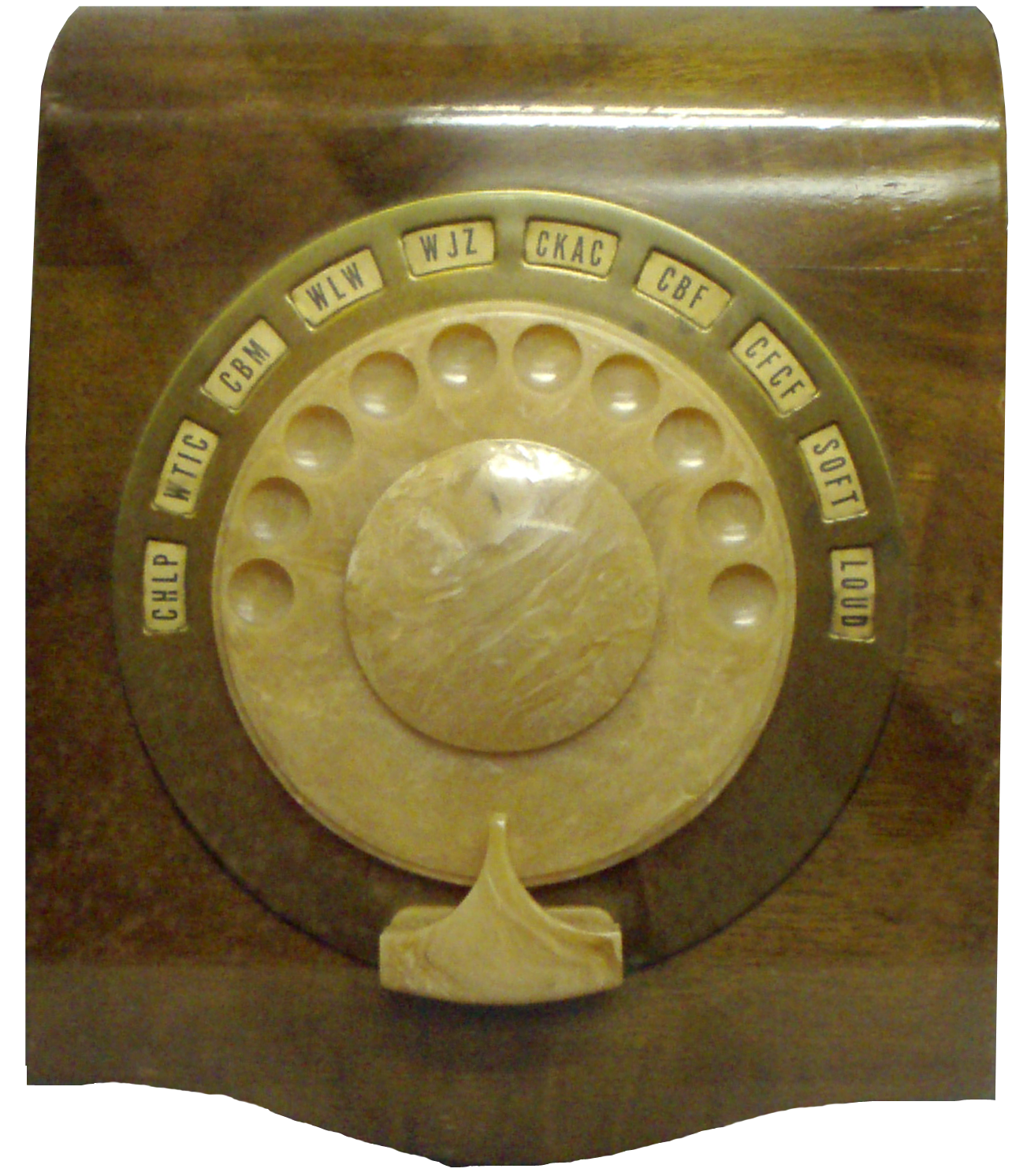 The Philco "Mystery" Control from 1939, the first wireless control unit (for radio).